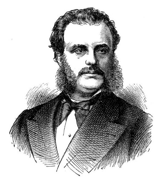 Drawing of Doctor Marco Aurelio Soto